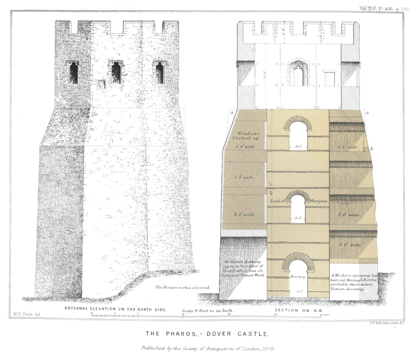 Roman pharos on the western heights of Dover (GB), inside view.